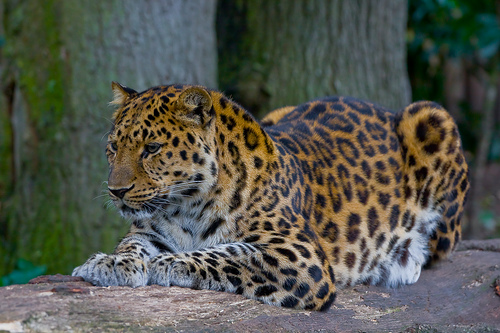 Amur leopard in captivity